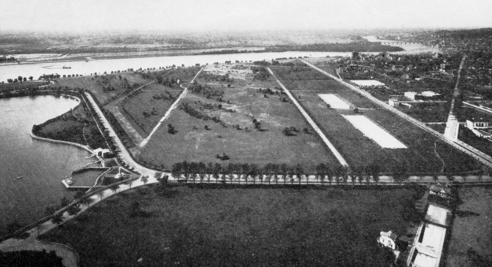 Potomac Park looking West prior to beginning construcion of the Lincoln Memorial, Washington, D.C. c1912 The Lincoln Memorial was built at the West (far) end of the Park by the Potomac River and the Reflecting Pool built in front of it. Ground was broken for the Memorial on February 12, 1914 and it was formally dedicated twelve years later on Memorial Day, May 30, 1922.